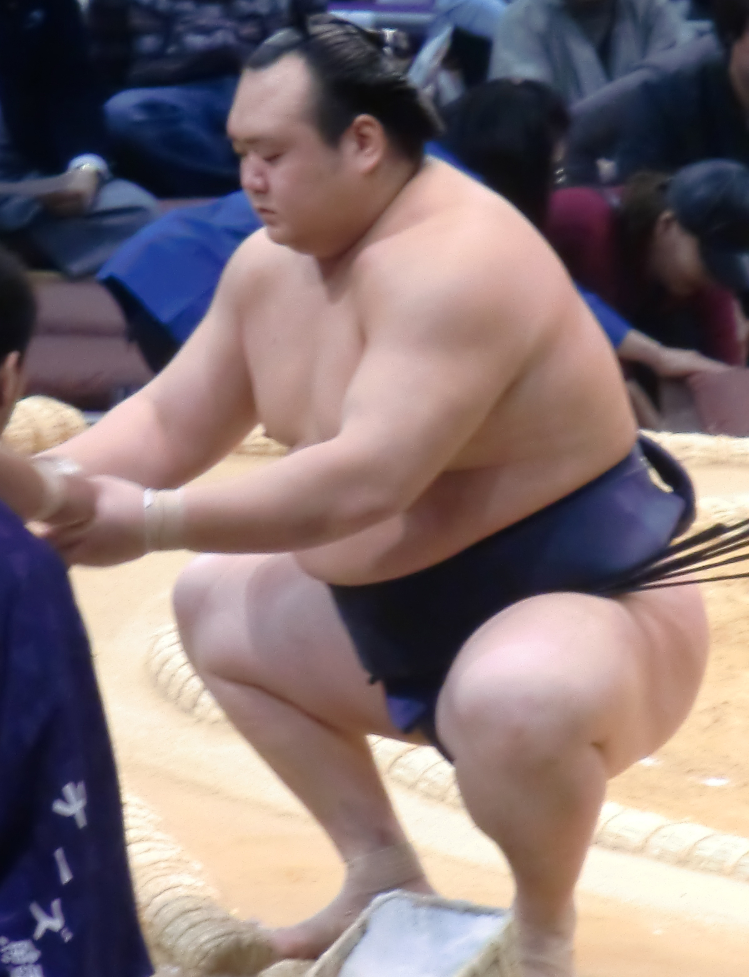 taken at Fukuoka November 2011 touranment